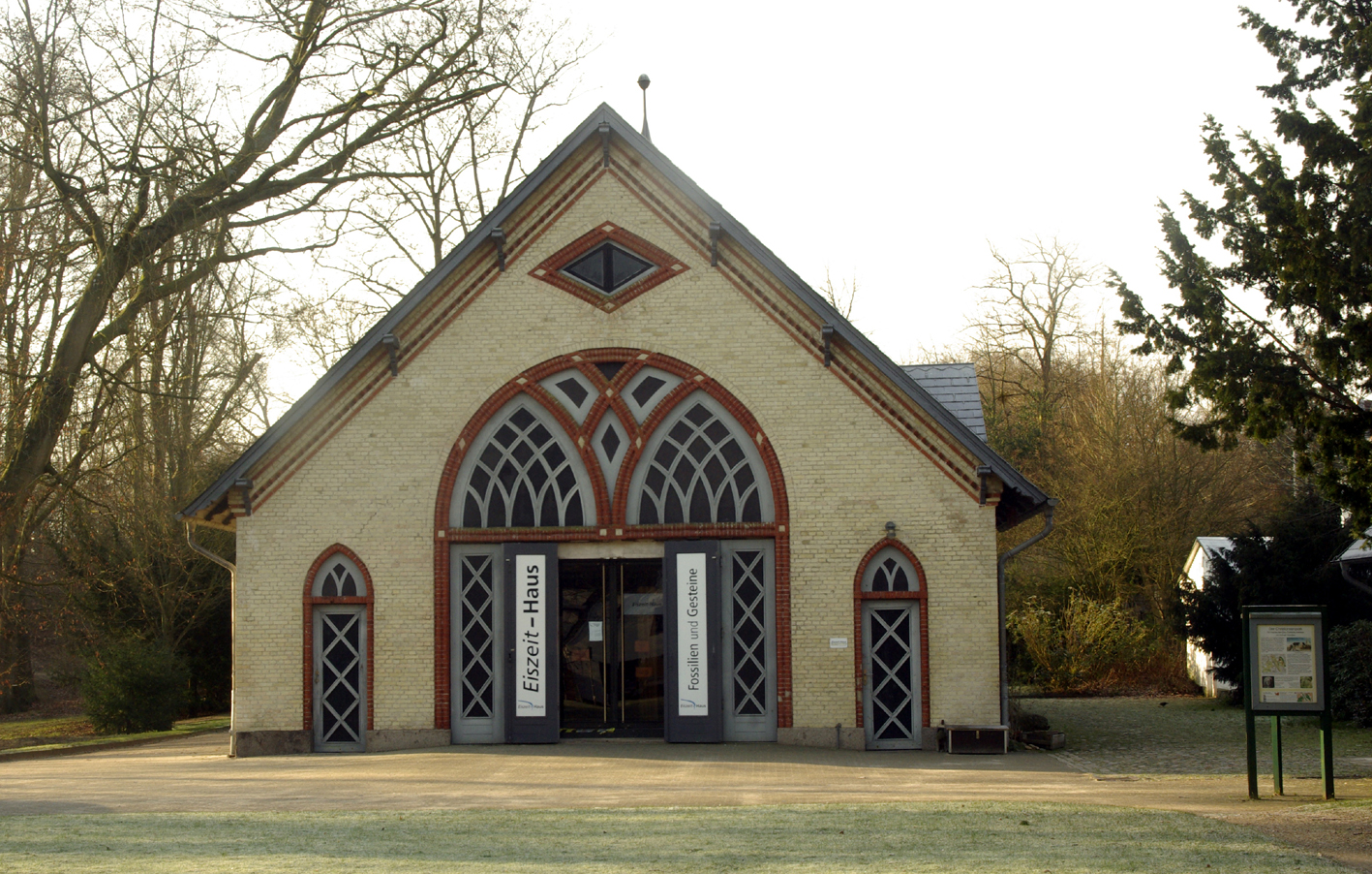 The Ice House is the geological and paleontological display room of the Natural History Museum Flensburg in Germany.